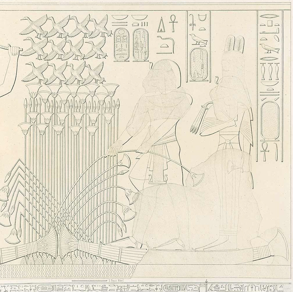 King Ay and his wife Tey in Ay's tom WV23 in the Valley of the Kings